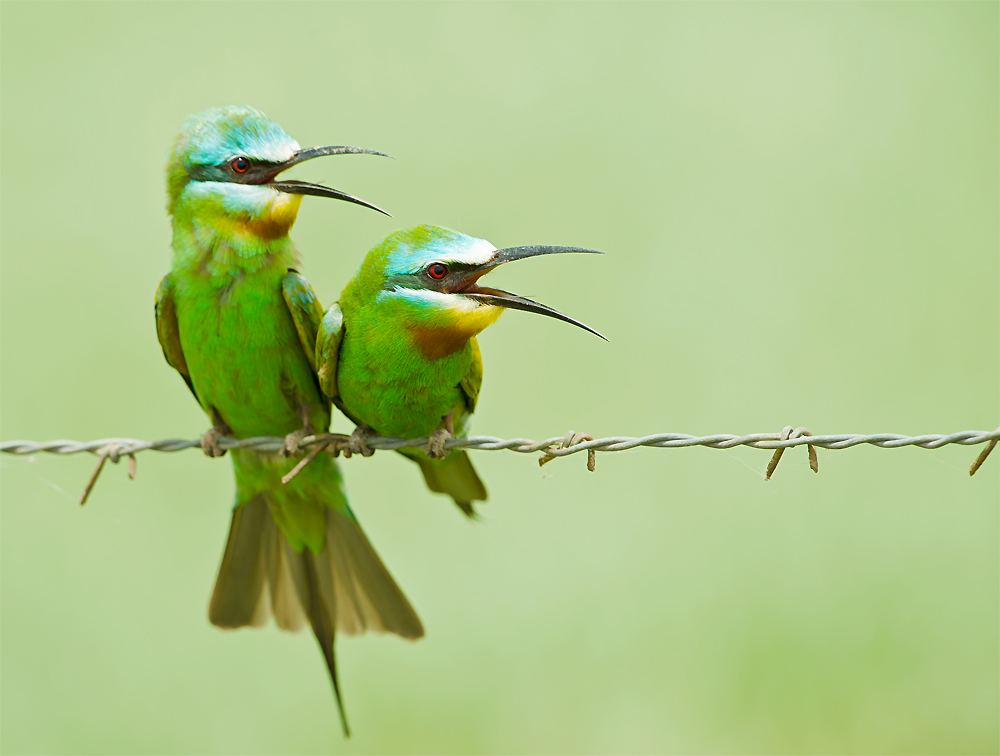 Blue-cheeked Bee-eater (Merops persicus) pair in courtship, seen in Basai, Gurgaon on Sunday 10th June 2012.